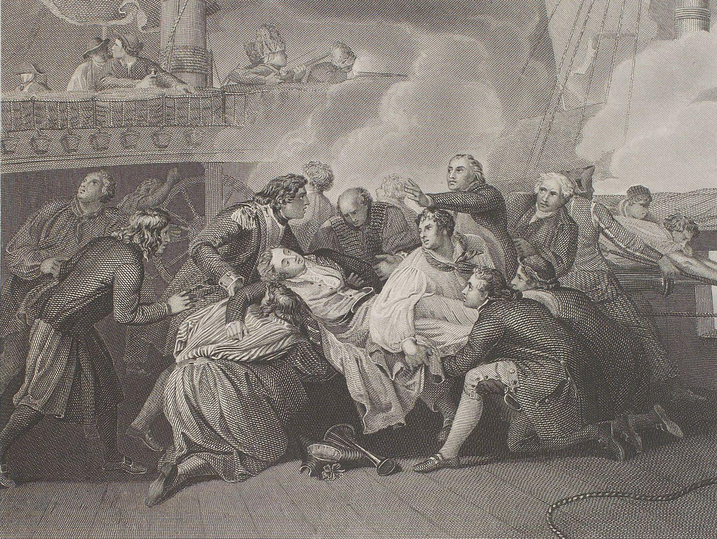 Crop of Death of Lord Robert Manners' (Lord Robert Manners), by William Turner Davey.